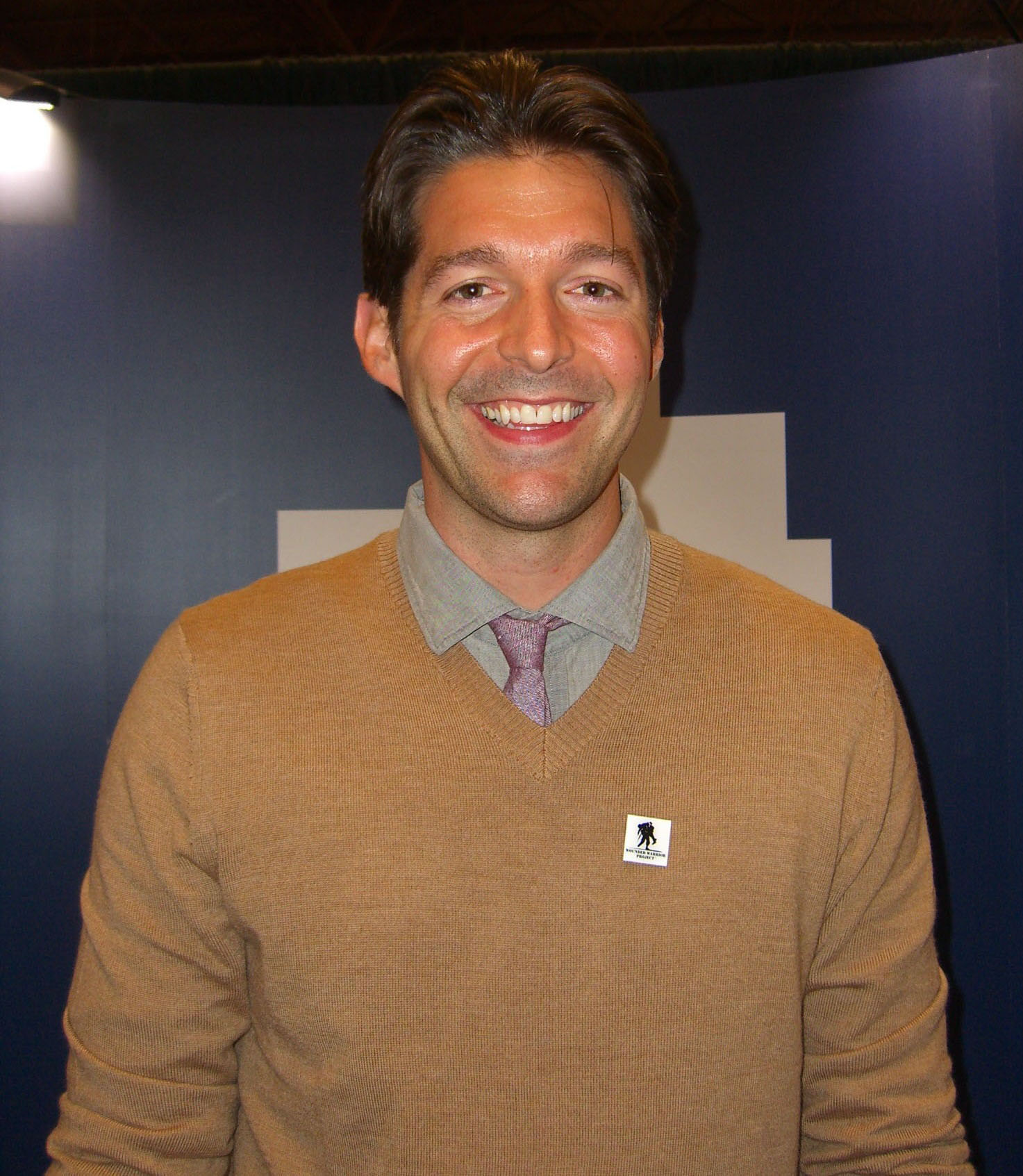 Television personality Blair Herter at the G4 booth on Day 2 of the 2012 New York Comic Con, Friday October 12, 2012 at the Jacob K. Javits Convention Center in Manhattan. This photo was created by Luigi Novi. It is not in the public domain, and use of this file outside of the licensing terms is a copyright violation.